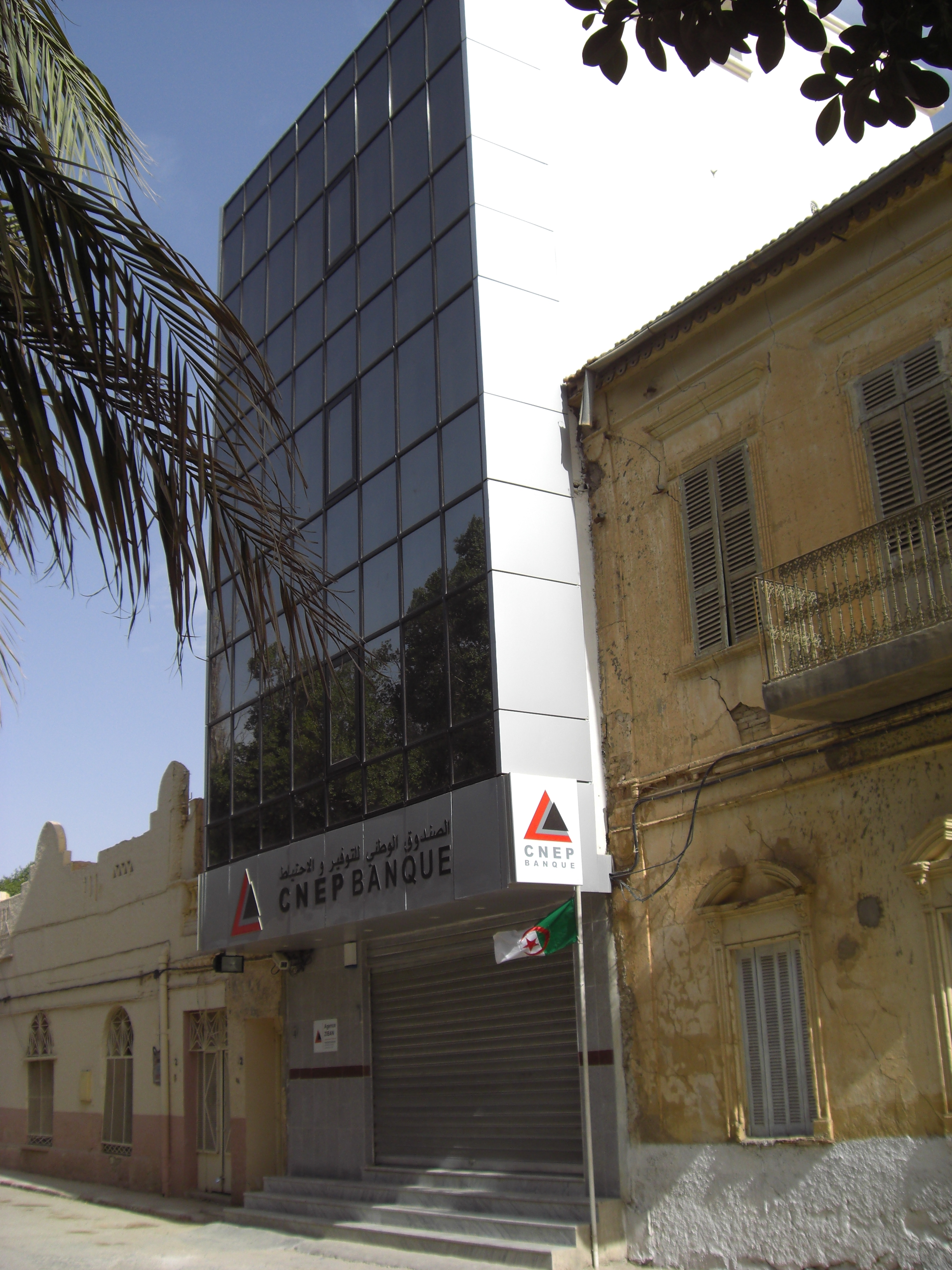 CNEP bank branch — in Biskra, Algeria.